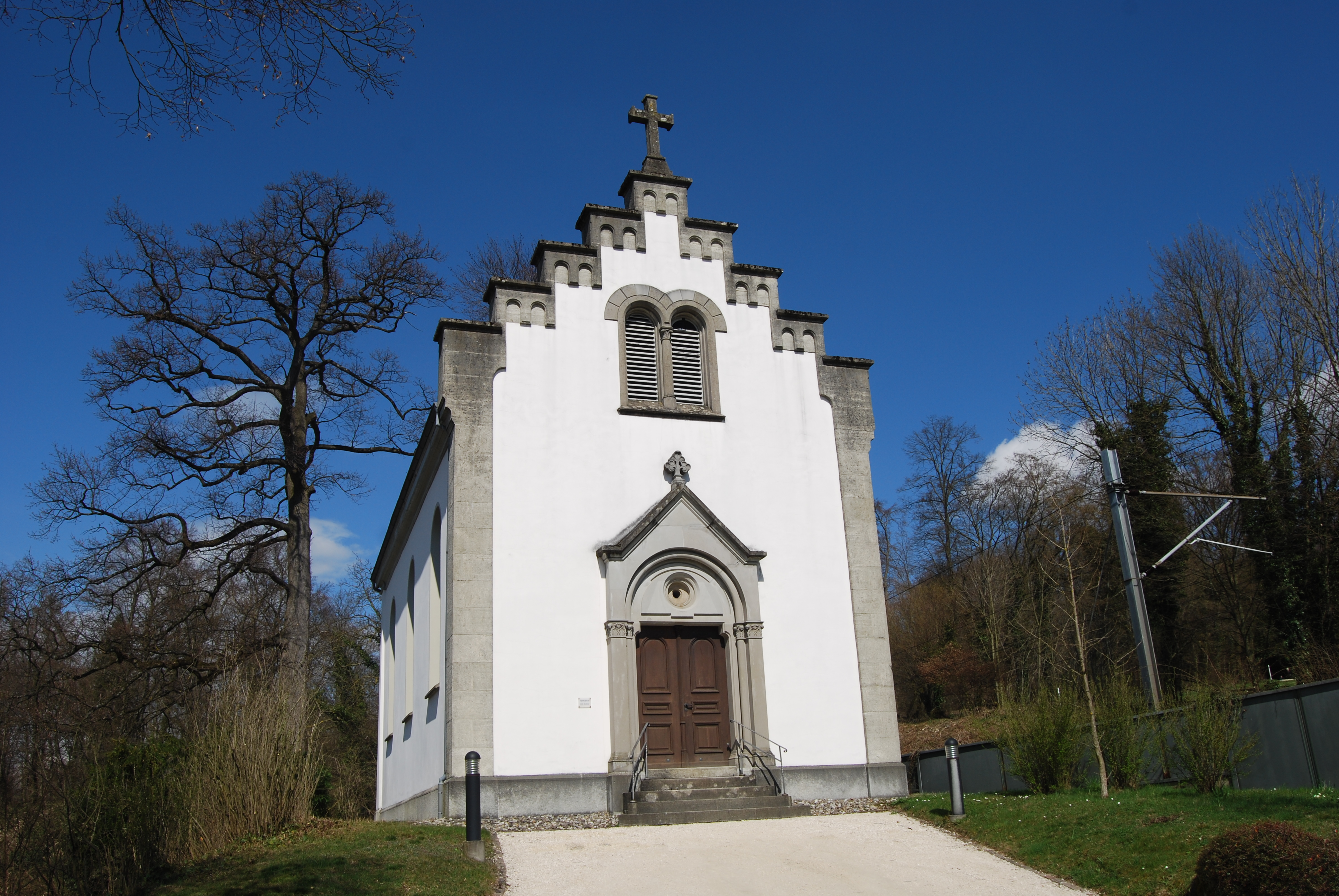 Spa Chapel of Schinznach-Bad, canton of Aargau, SwitzerlandEsperanto: Kurackapelo de Schinznach-Bad, Kantono Argovio, Svislando